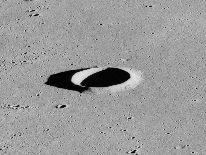 Oblique view of Carlini, Mare Imbrium, on the moon. Camera Altitude is 101 km, Sun Elevation is 8° (from right).